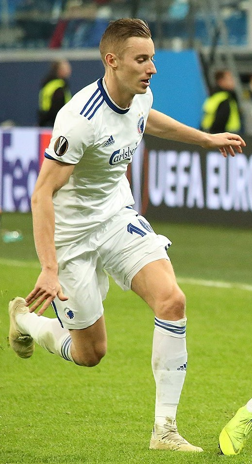 Ján Greguš